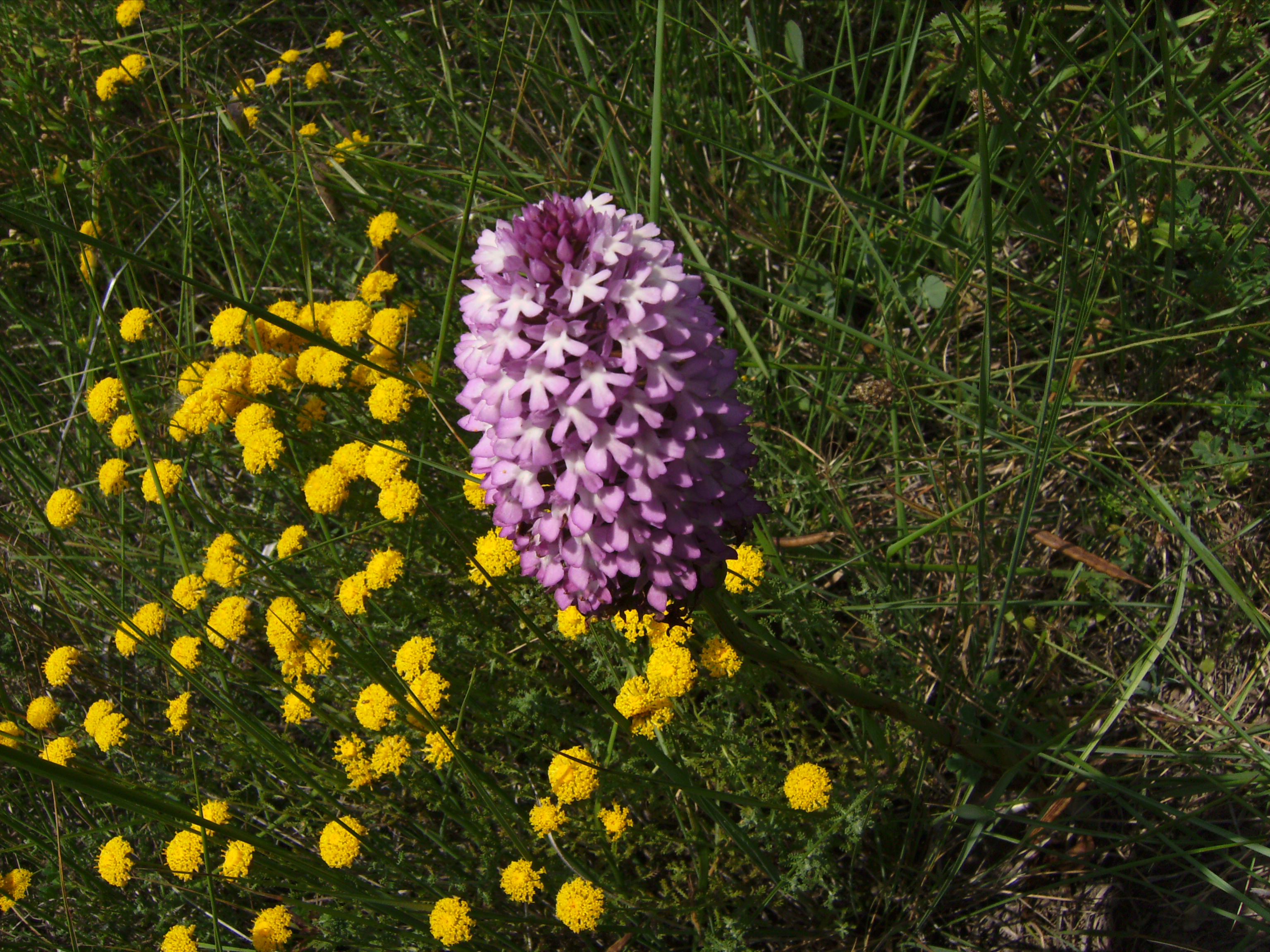 Anacamptis pyramidalis in the wild Santolina chamaecyparus at left Castelltallat Catalonia